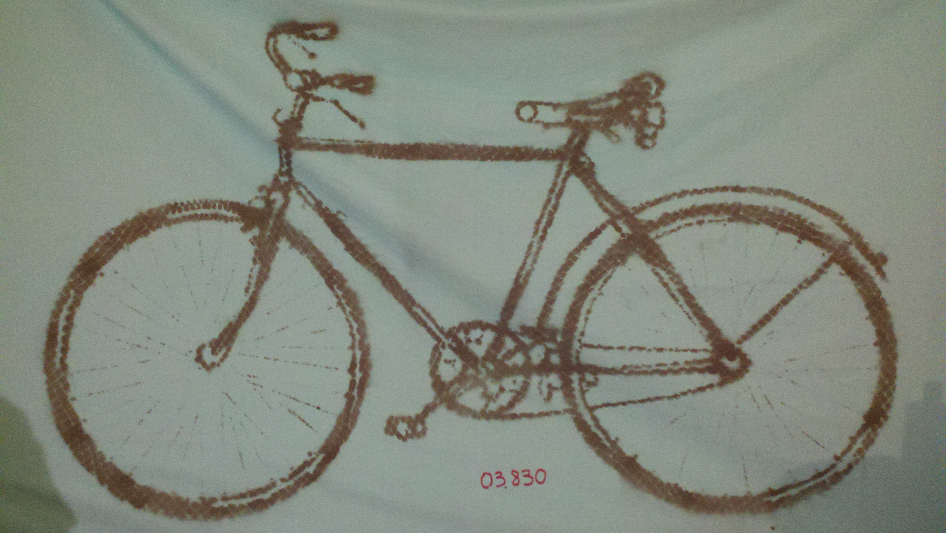 A banner with Fernando Traverso's numbered bici image.